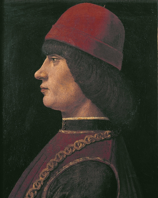 Ritratto di Giovanni Pico della Mirandola (XV secolo), olio su tela, particolare. Bergamo, Accademia Carrara